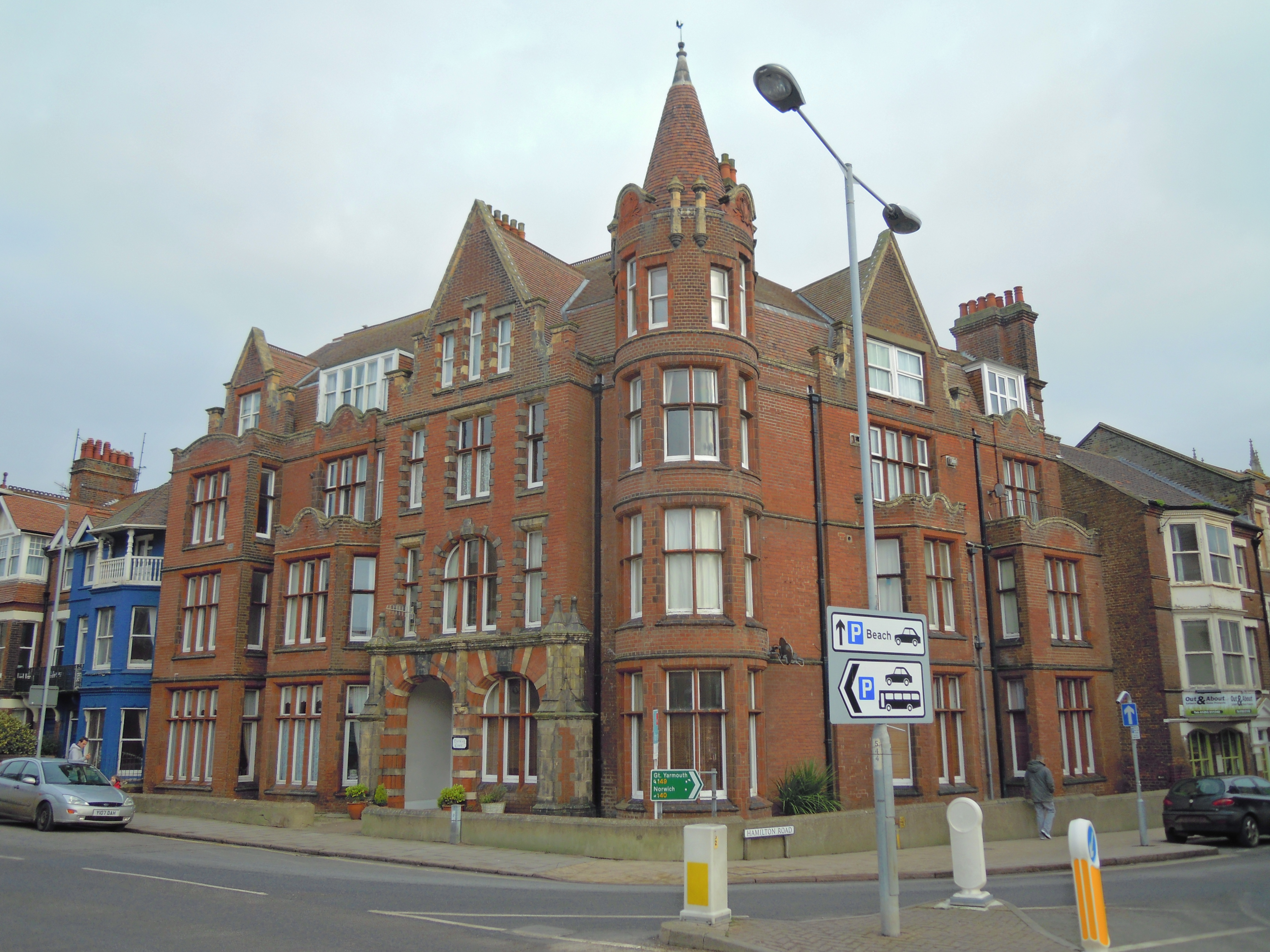 This building was formally the Eversley Hotel. It has now been converted to flats. it is located in Prince of Wales Road in the English seaside town of Cromer, Norfolk, England. The architect was Augustus Scott.